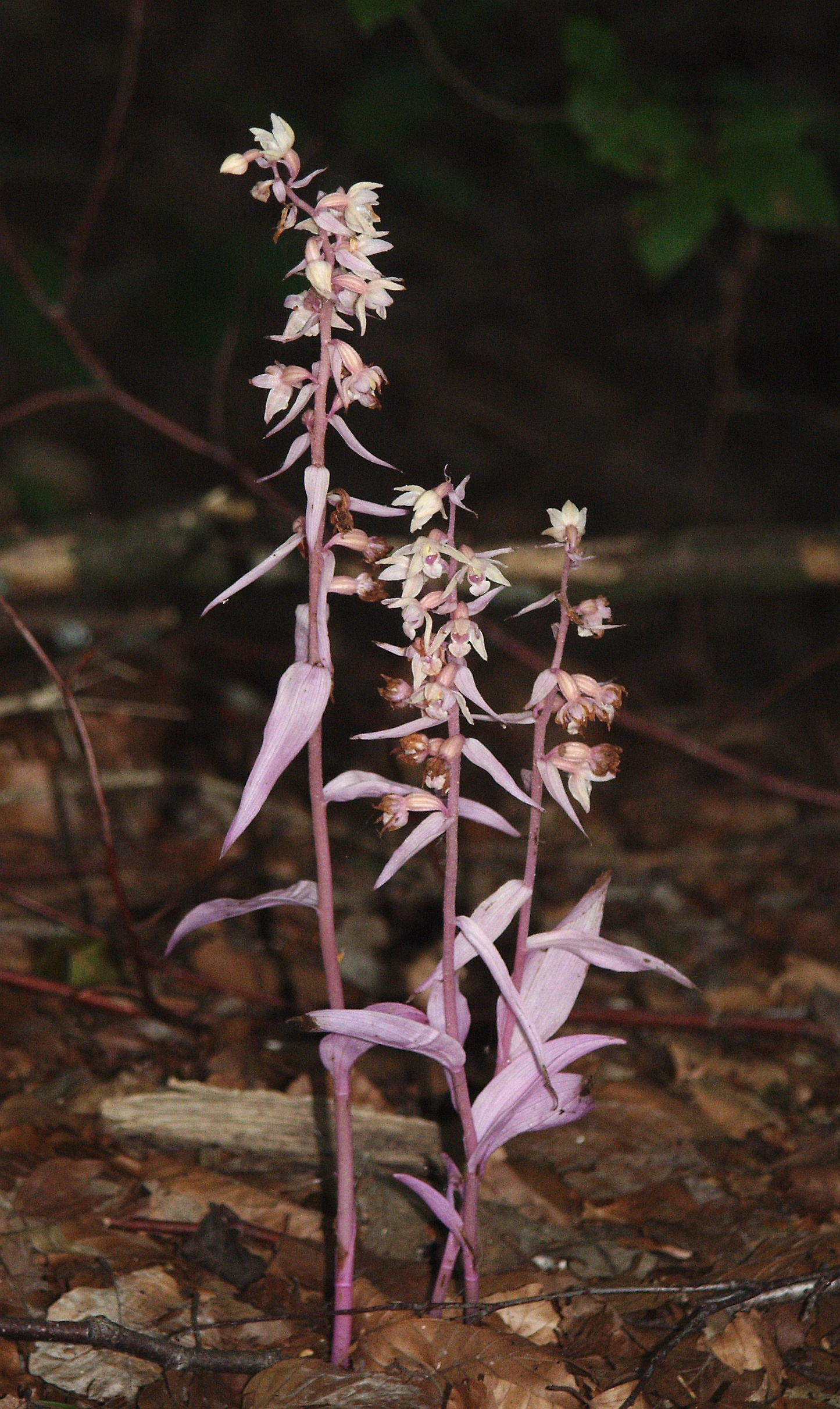 Epipactis purpurata lus. rosea, Schwäbische Alb, Germany